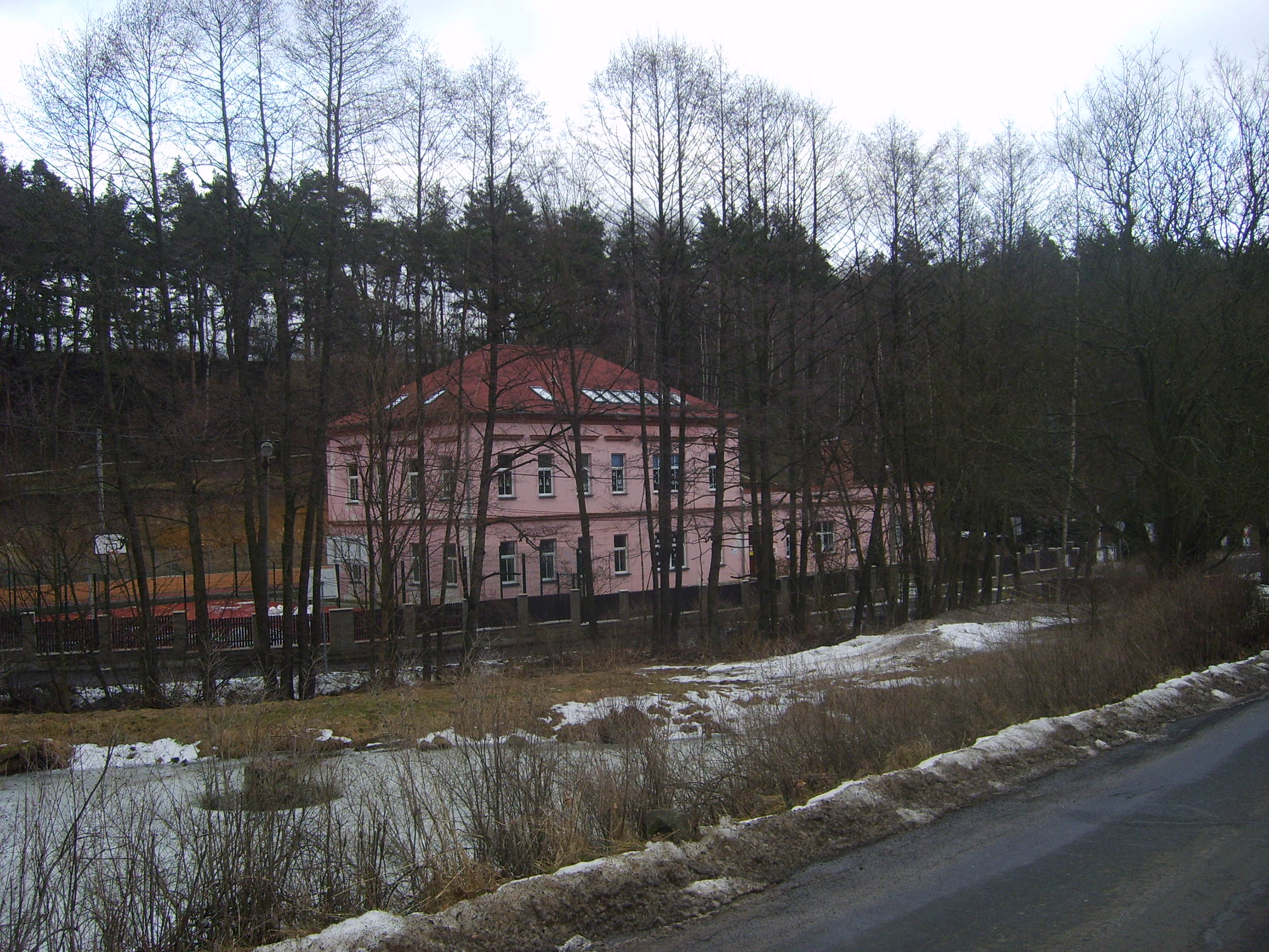 Building of an elementary school in Sadov, Czech Republic.